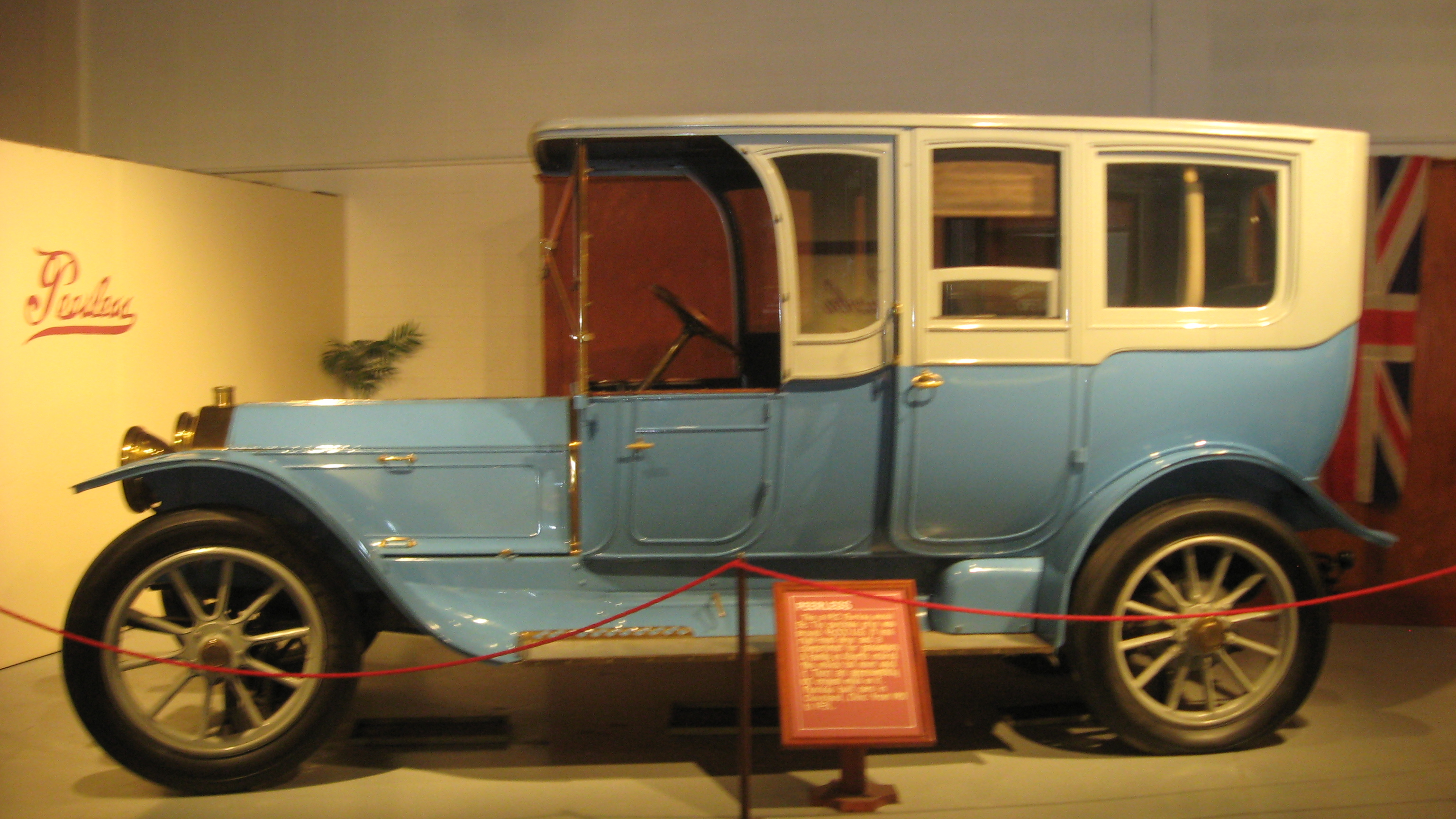 1912 Peerless, never sold. The family that ordered it refused to take delivery due to very bad ride quality. Car went into storage until donated to the Western Development Museum. Car has about 100 miles on it. Shot at local museum.